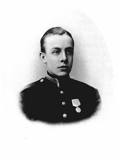 A photograph of young Alexander Georgievich, 7th Duke of Leuchtenberg (1 November 1881 - 28 April 1942)